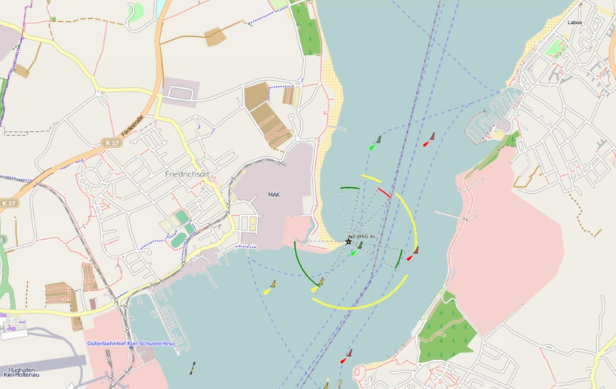 OpenSeaMap - nautical chart of Kiel Fjord (Germany) from Laboe to Mole Stickenhörn.